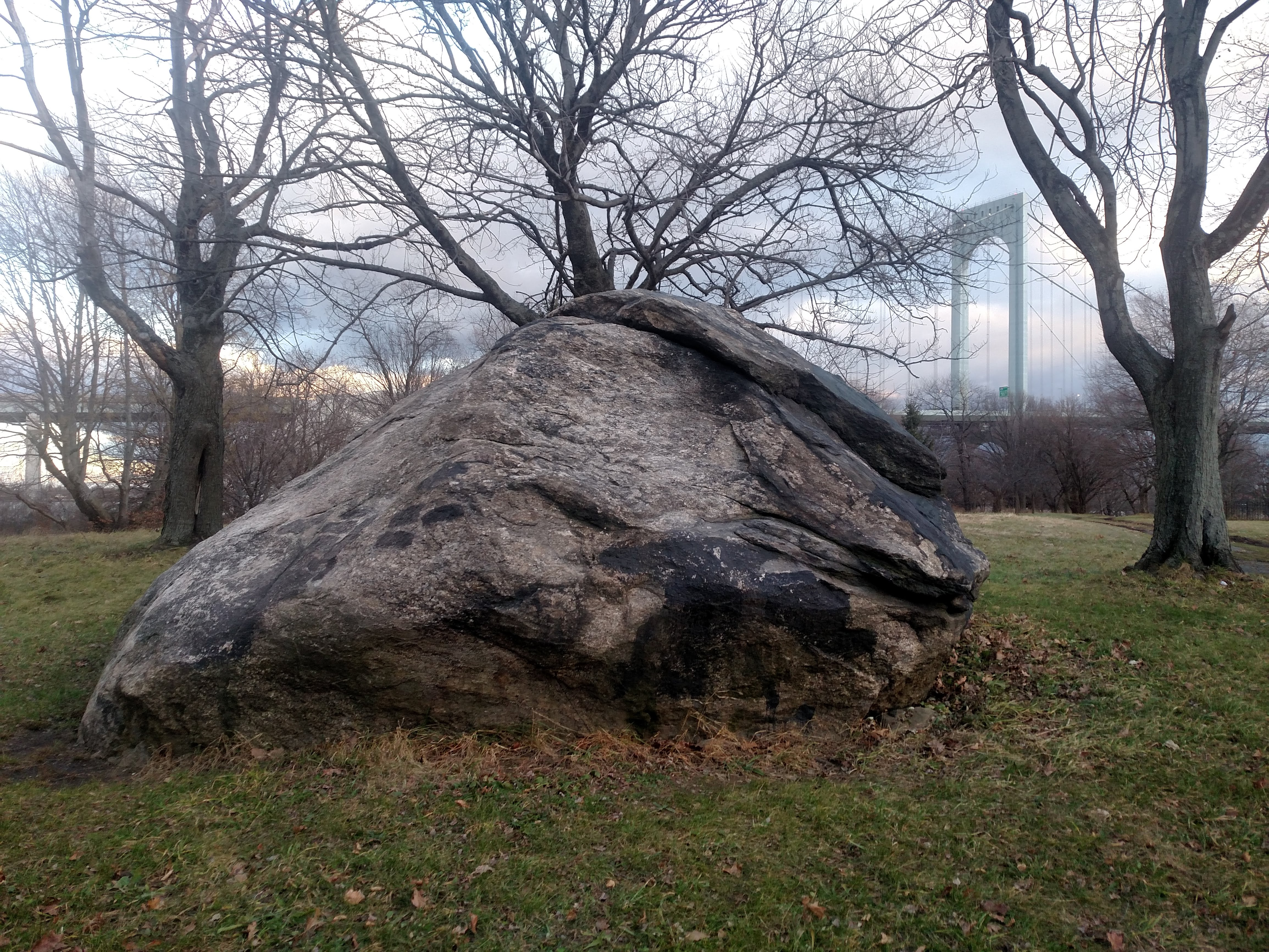 A large boulder sits near the southern end of Ferry Point Park in Bronx, NY. The Bronx-Whitestone Bridge is in the background. The boulder is possibly a glacial erratic.